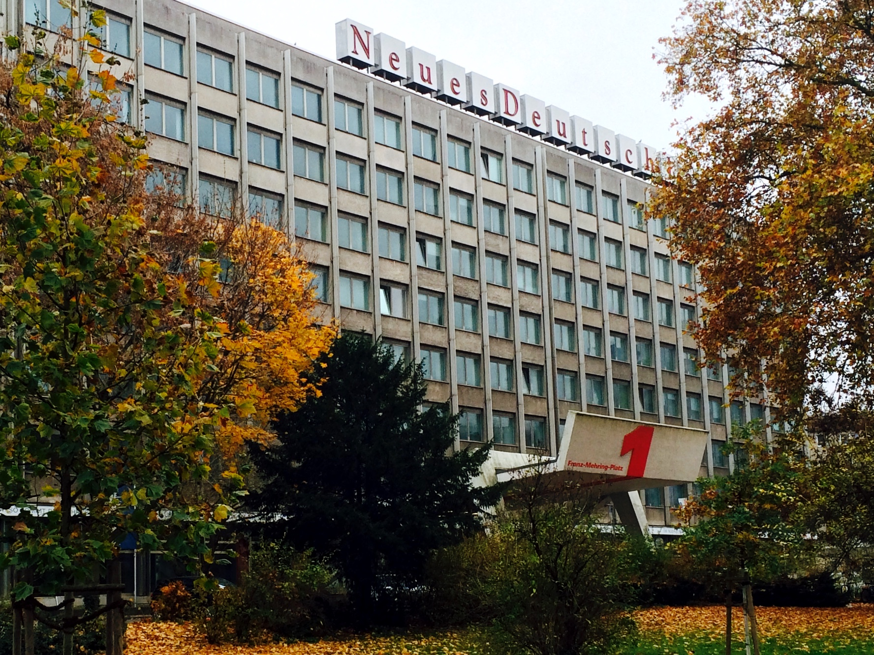 Neues Deutschland publishing house in Berlin, Germany